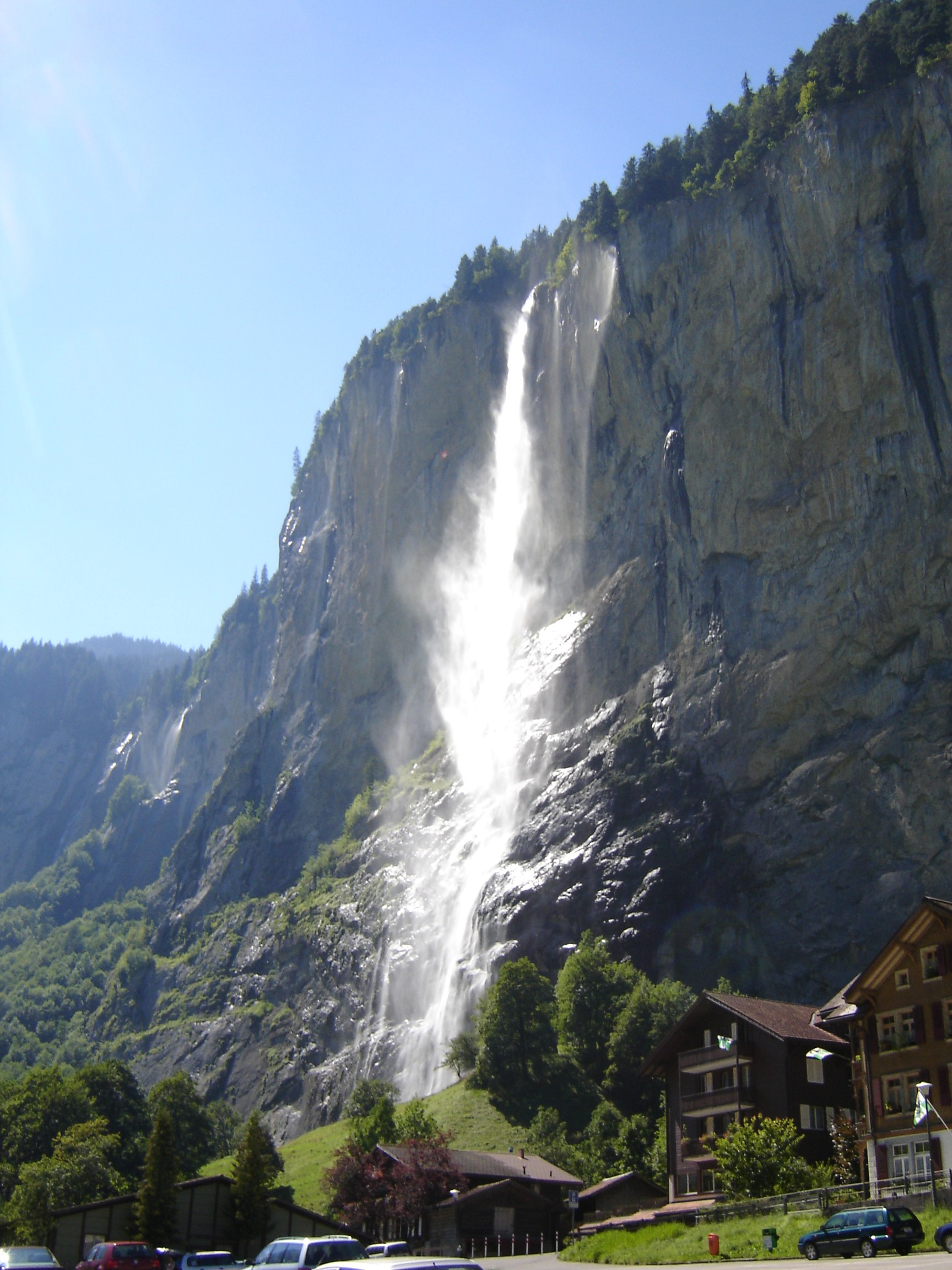 Staubbach Falls in Lauterbrunnen, Switzerland 2004